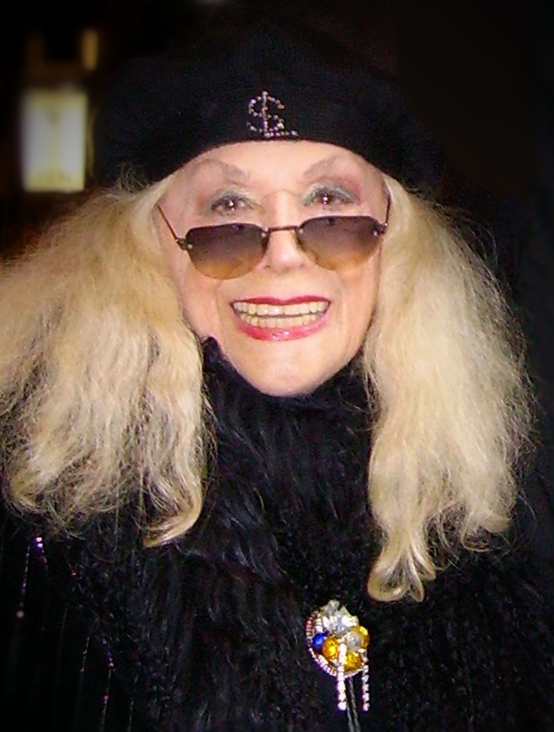 PENTAX Image - Sylvia Miles, 2007 in New York City - cropped from a larger image found at Flickr.